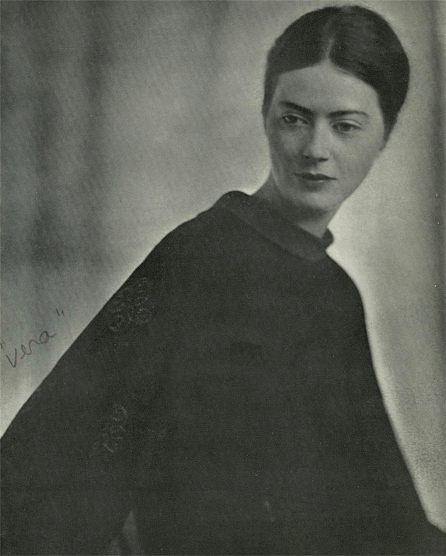 Vera (Olivia) Weatherbie by John Vanderpant (1884-1939)